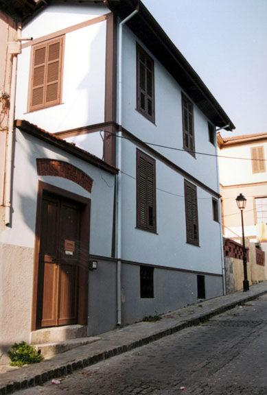 View from outside, image from the Tehni Macedonian Art Association, Thessaloniki, Central Macedonia, Greece